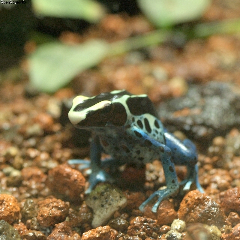 アイゾメヤドクガエル（学名：Dendrobates tinctorius 英名：Dyeing Poison Frog） 神戸市立須磨水族園アマゾン館で撮影; in Suma Aqualife Park, KOBE, Japan